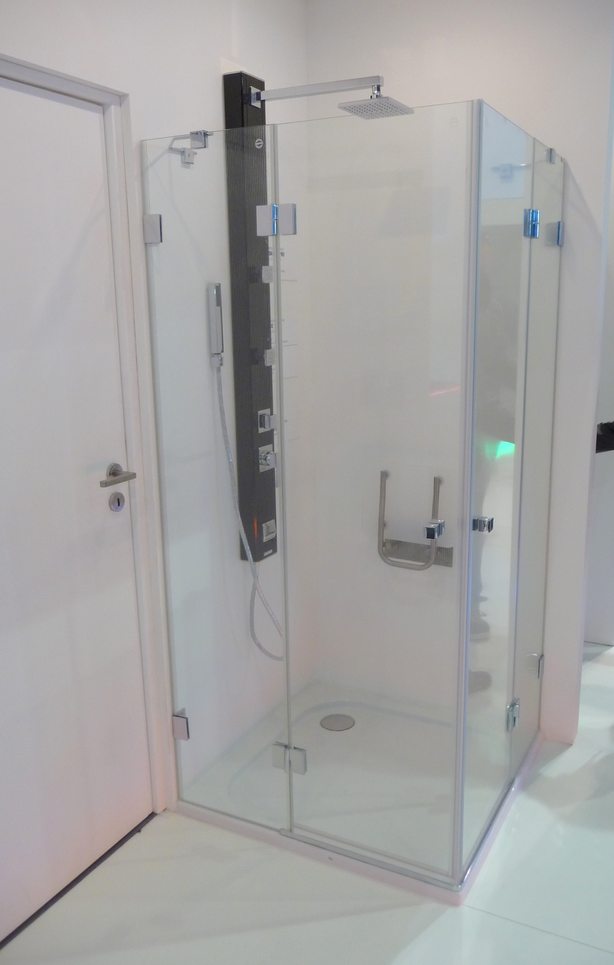 Shower, Building Fairs Brno 2011 -10 -5 -3 -2 ◄ ► +2 +3 +5 +10